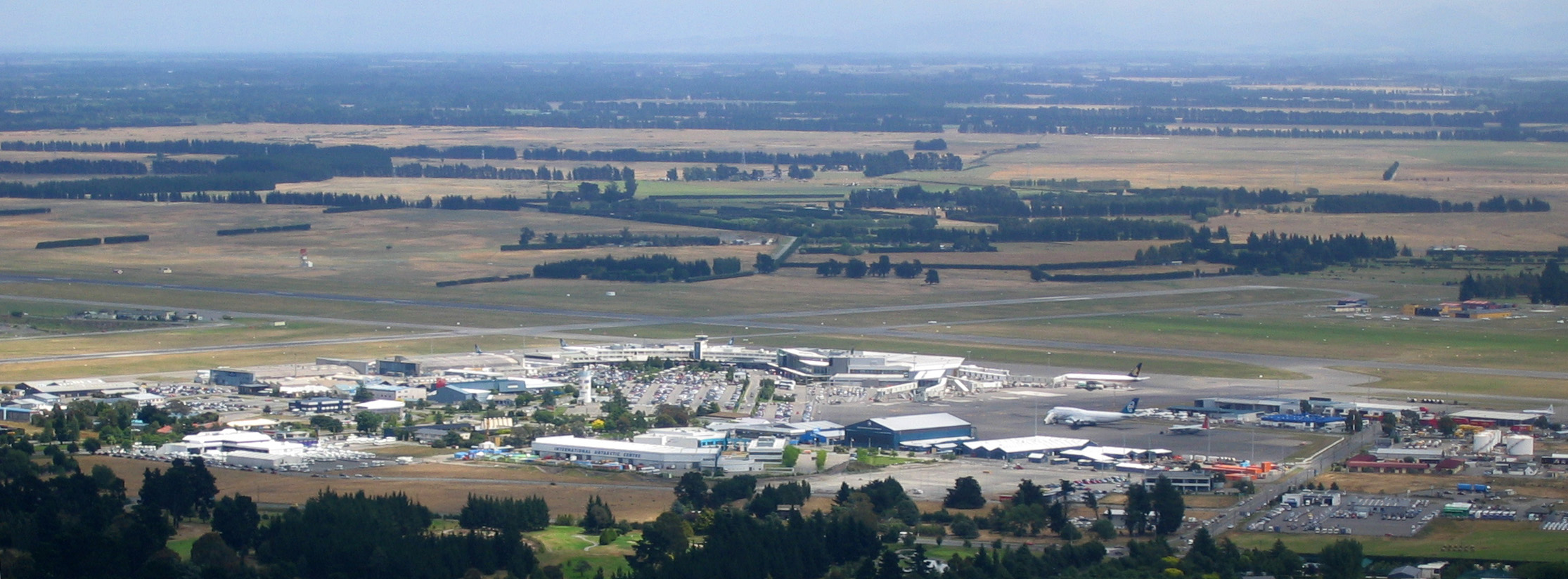 Christchurch International Airport, December 2005